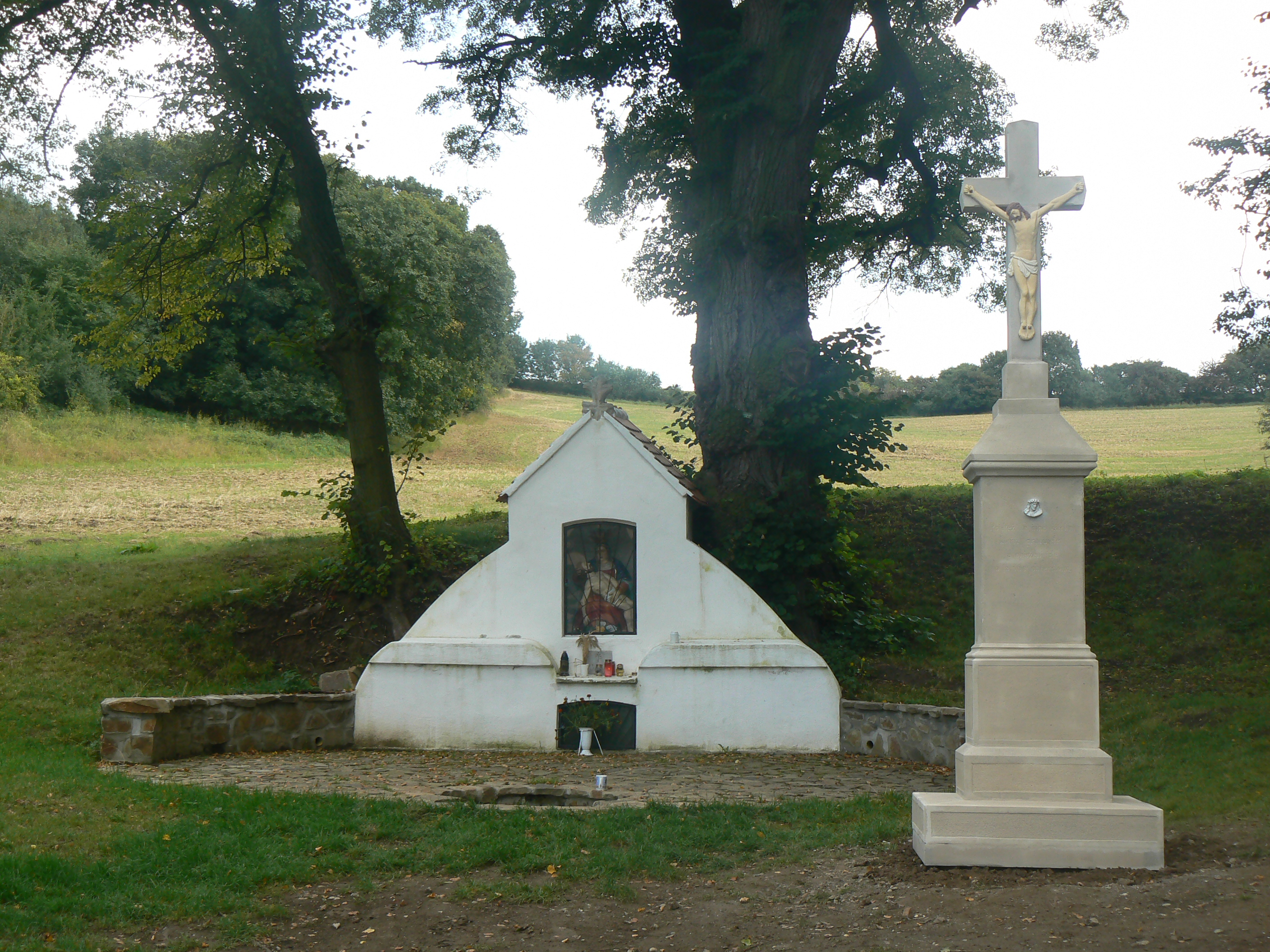 Chapel and spring "Svatá" from 1794, renewal in 2008, Brankovice , Vyškov District, Czech Republic